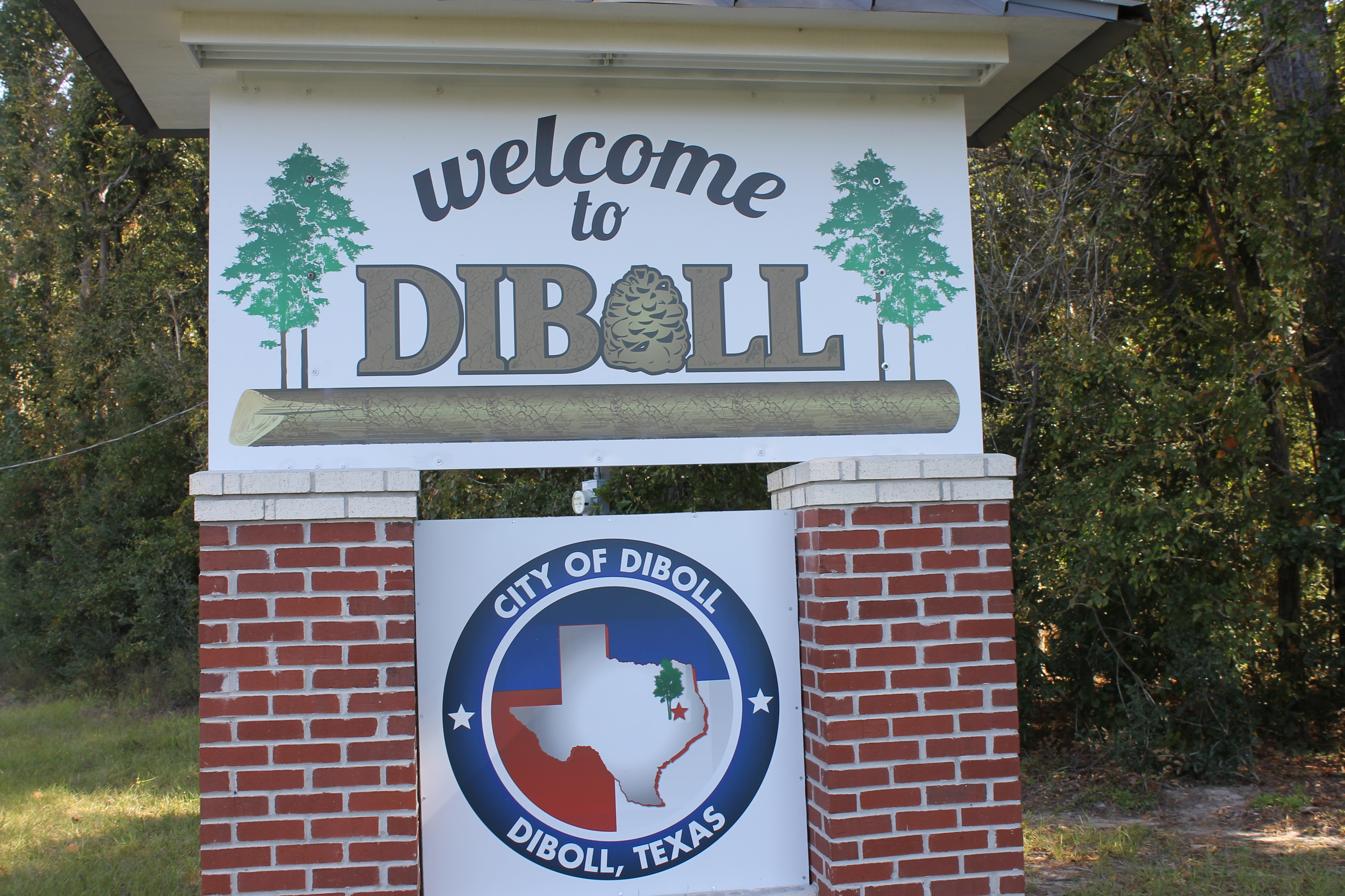 Diboll, TX, welcome sign